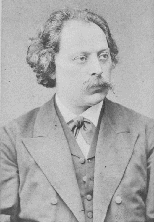 Karl Goldmark, also known originally as Károly Goldmark and later sometimes as Carl Goldmark, ( Keszthely, Hungary, May 18, 1830 – January 2, 1915 Vienna) was a Hungarian composer. (This summary was created using Commons SumItUp)